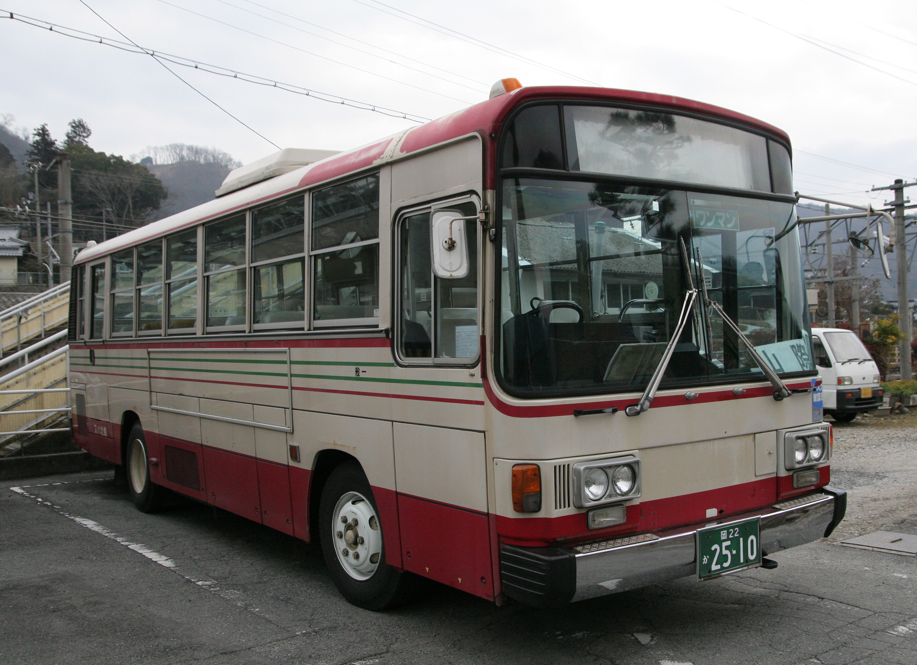 Bihoku Bus oka22 ka25-10 in Bitchu-kawamo Station (Nissan Diesel P-RM81G)